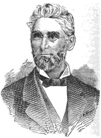 Charles B. Lore, Delaware Congressman.